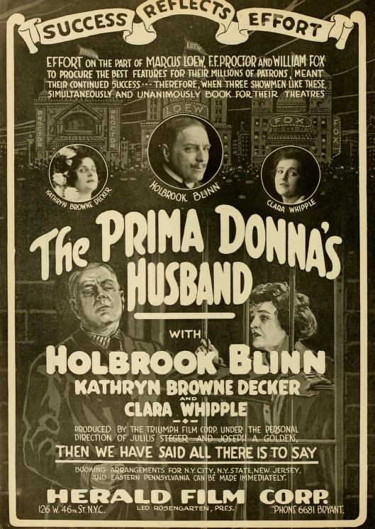 Advertisement in Moving Picture World for the American film The Prima Donna's Husband (1916).